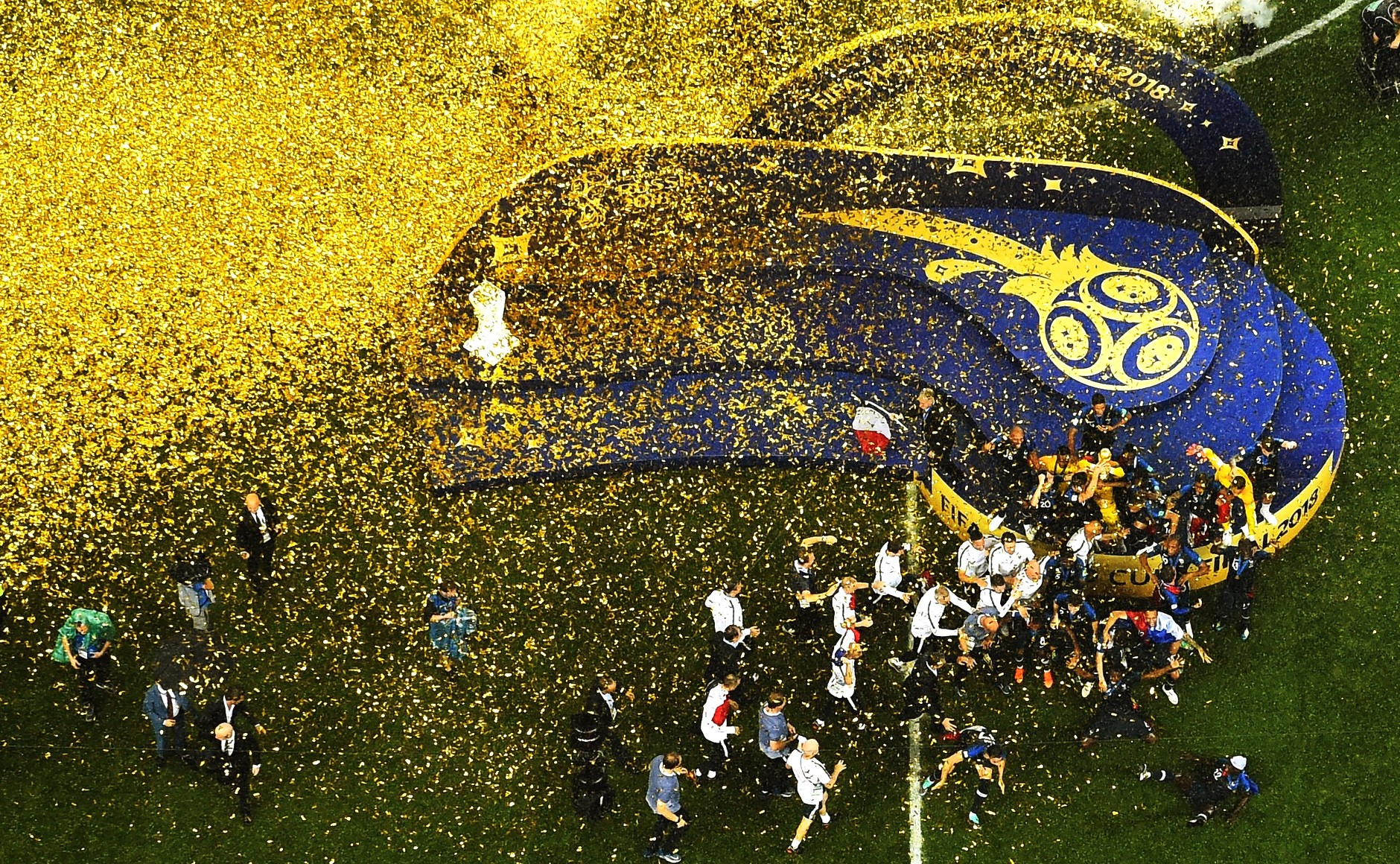 An aerial view of the stage on the field of Luzhniki Stadium after the presentation of the FIFA World Cup Trophy to the France national football team. The team celebrates on the pitch under a shower of confetti and rainy weather after winning the 2018 FIFA World Cup Final by four goals to two against the Croatia national football team.